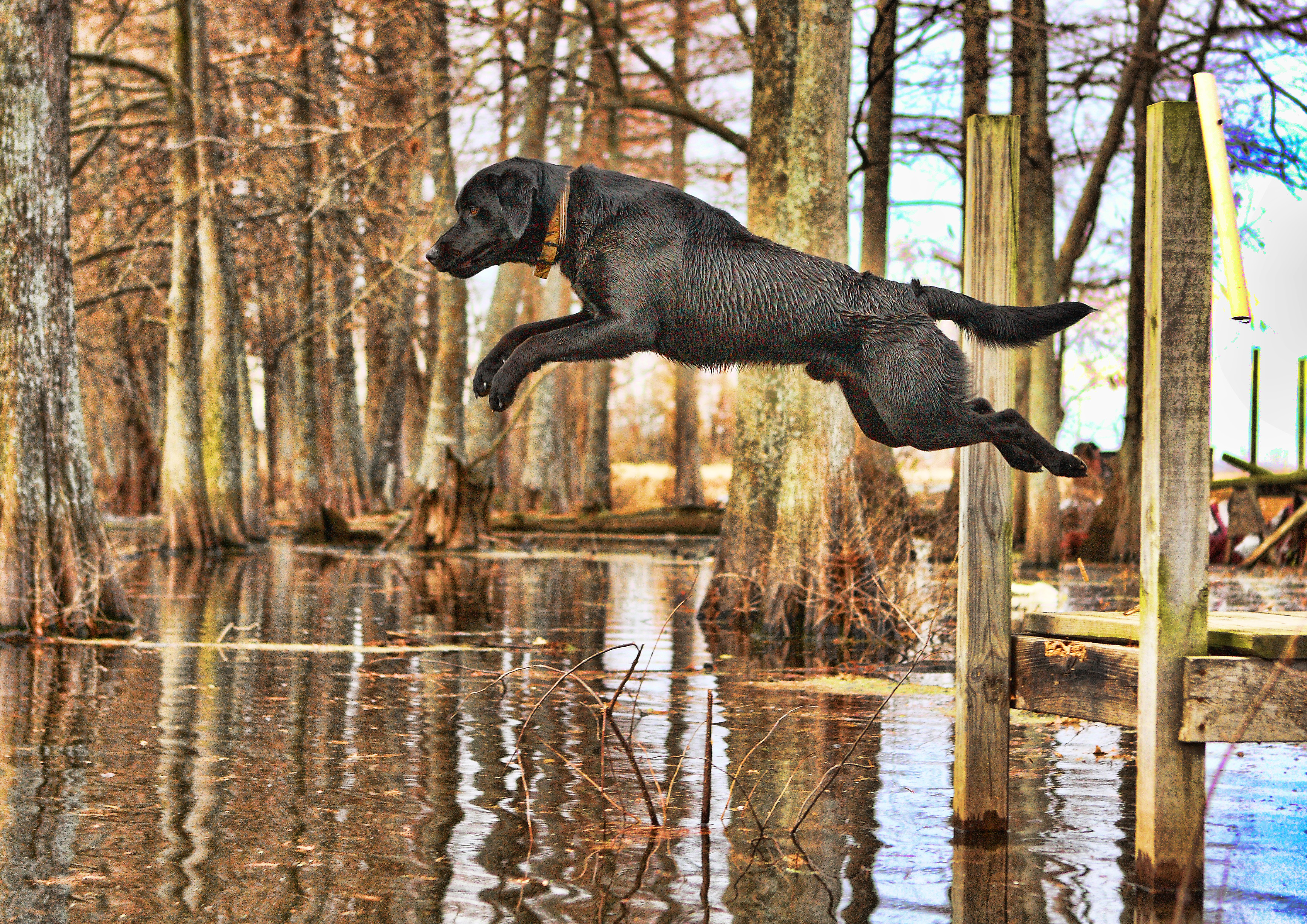 Jumping Retriever "Zeus" ("Zeus Launches")